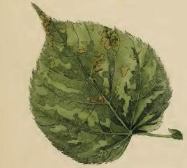 Stainton’s Natural History of the Tineina (1855–1873): Bucculatrix thoracella mined and gnawed lime leaf